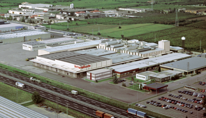 Aerial view of Vetrerie Riunite Spa, head-office near Colognola ai Colli (Verona, Italy)